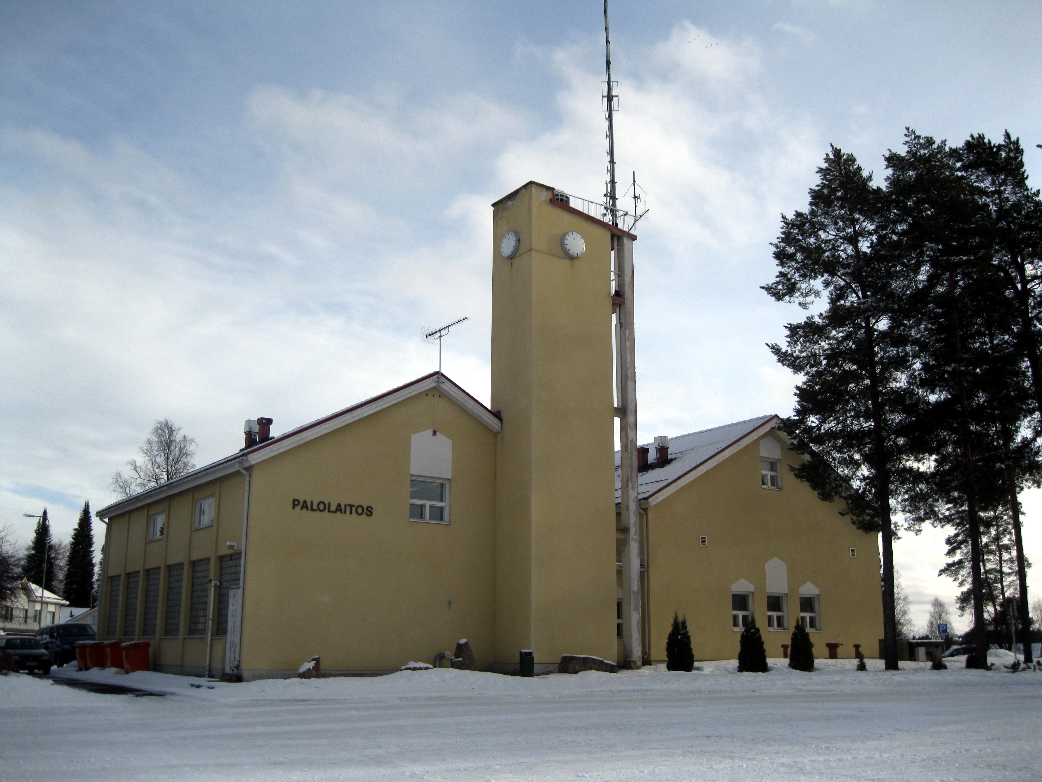 Alajärvi fire station.